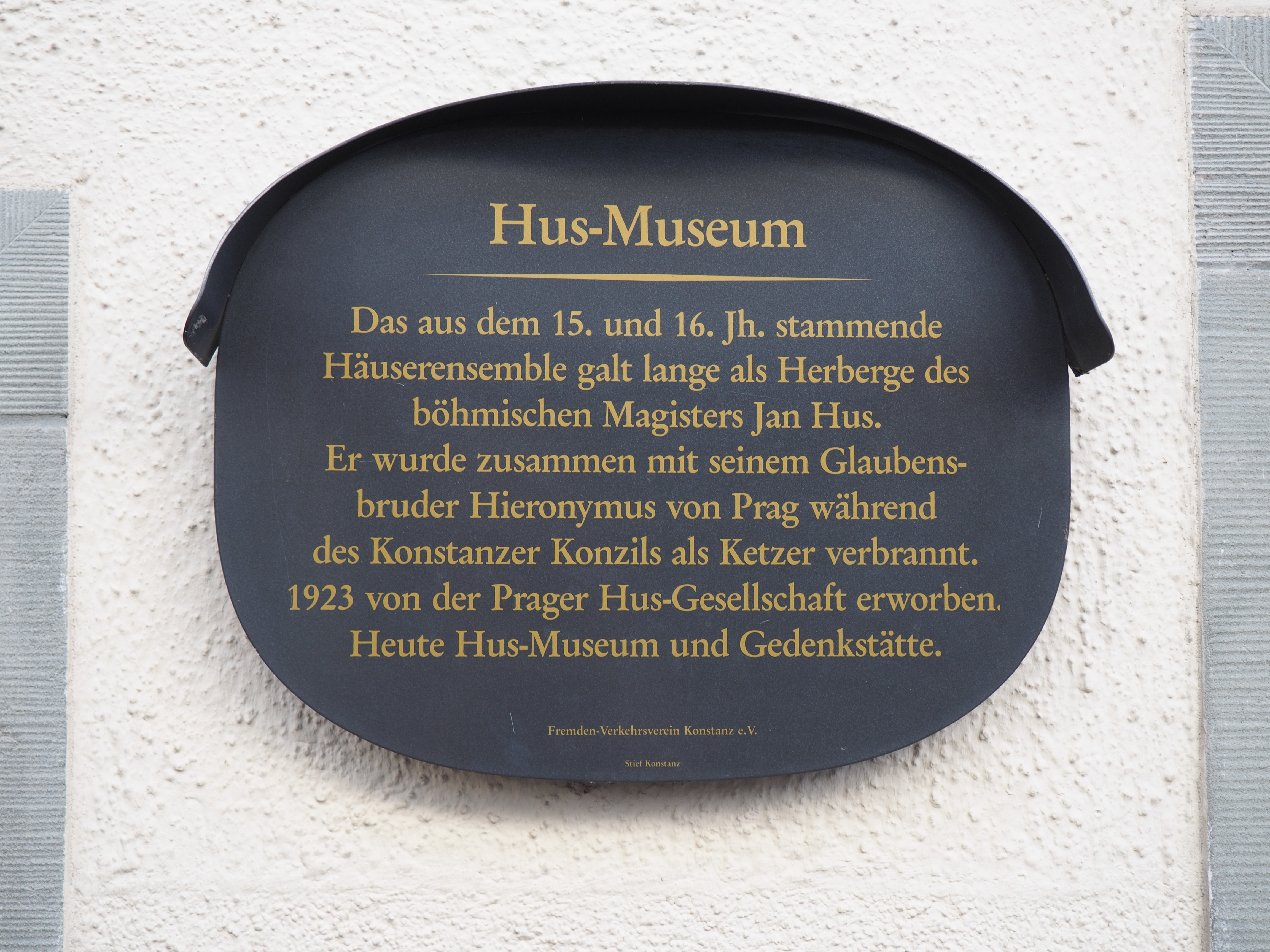 Infoboard on the Hus museum in Konstanz.